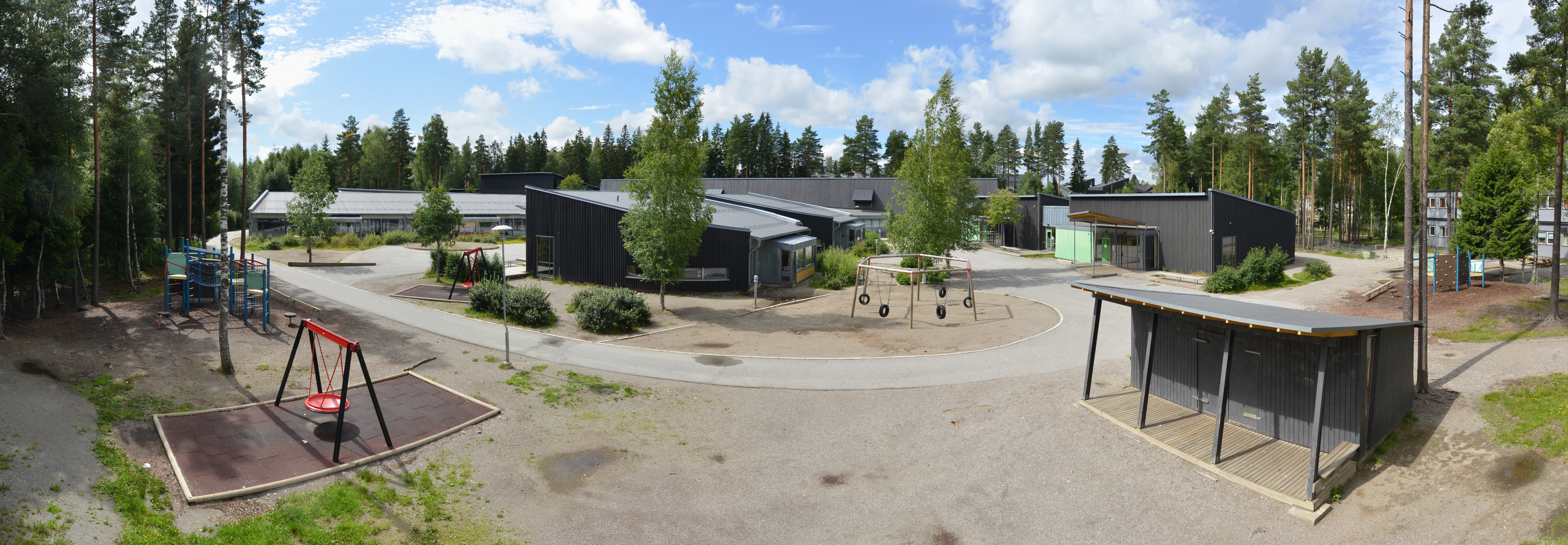 Skogmo school in Jessheim